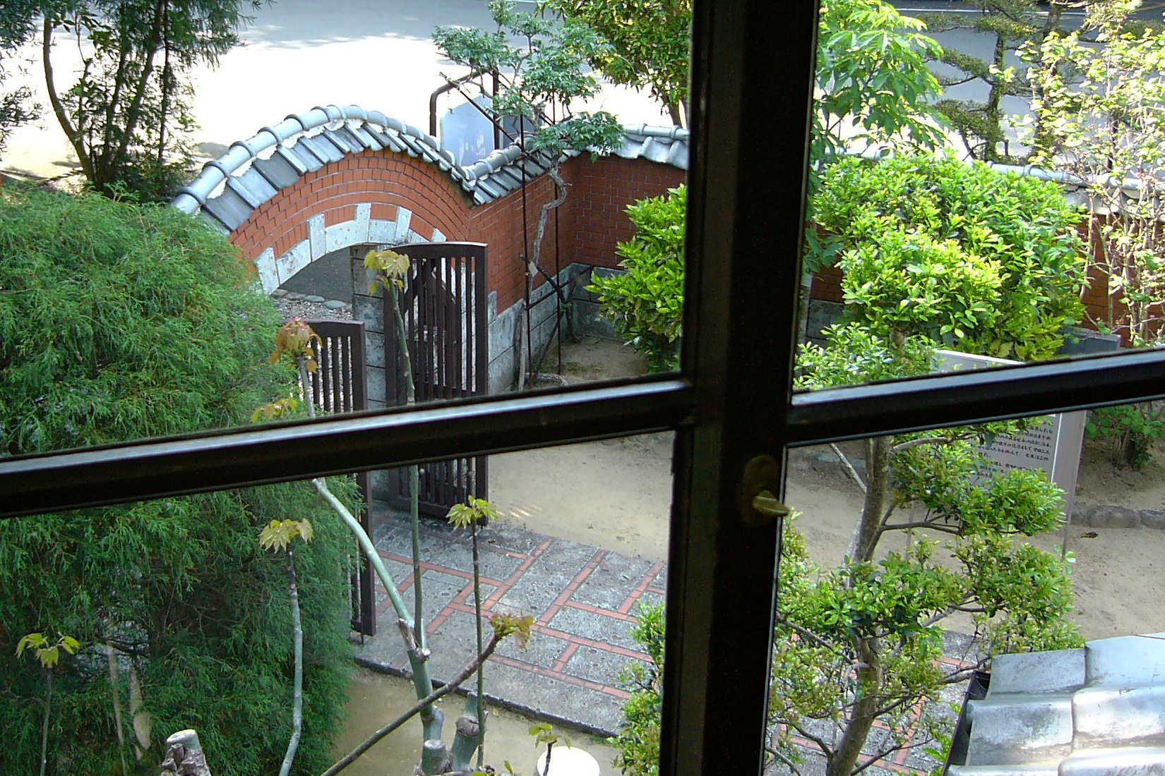 Sato Haruo Memorial Museum, Shingu, Wakayama prefecture, Japan